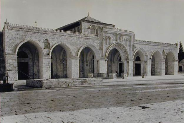 The facade of the al-Aqsa Mosque.